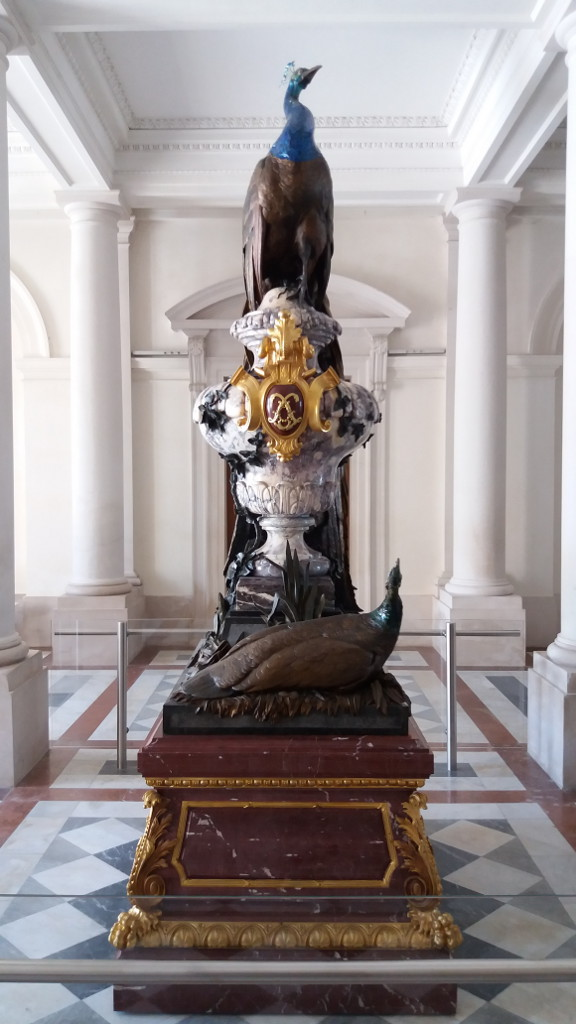 Royal monumental vase with peacock figures in the vestibule of the Royal Castle